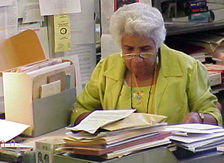 Ruth E. Hodge, archivist, historian, educator, and author of "Guide to African American Resources at the Pennsylvania State Archives" (published in 2000), is shown working at the Pennsylvania State Archives, c. 2000 (Pennsylvania State Archives, public domain).